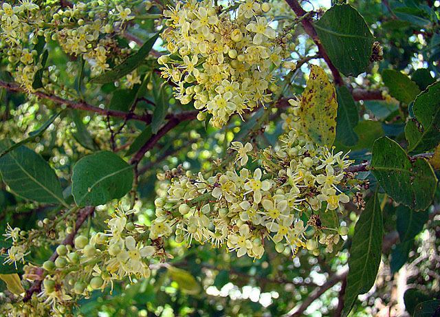 One of the species known as Molle in Chile. In context at